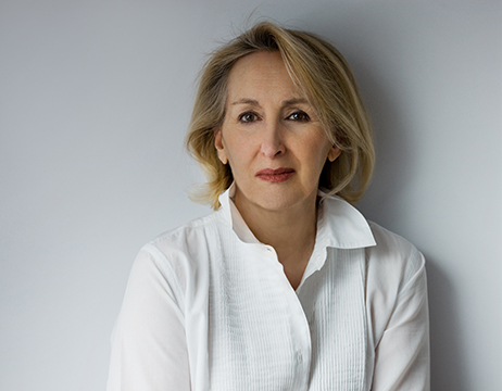 Portrait photograph of artist Margaret Priest